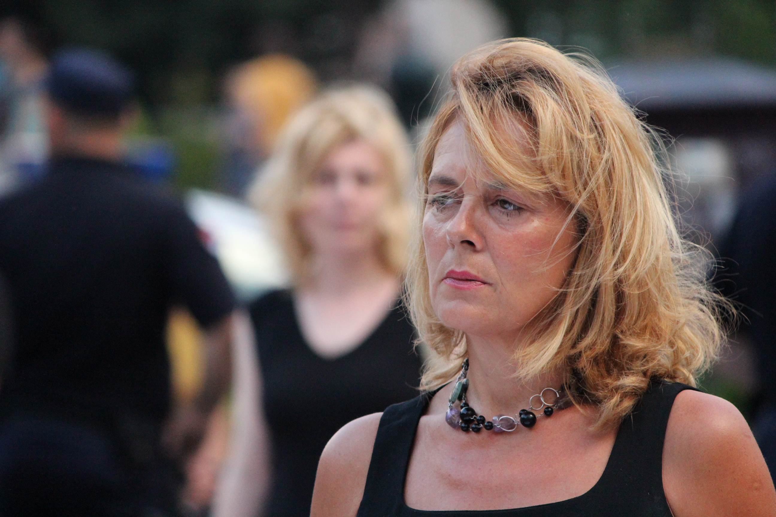 Maja Mitic